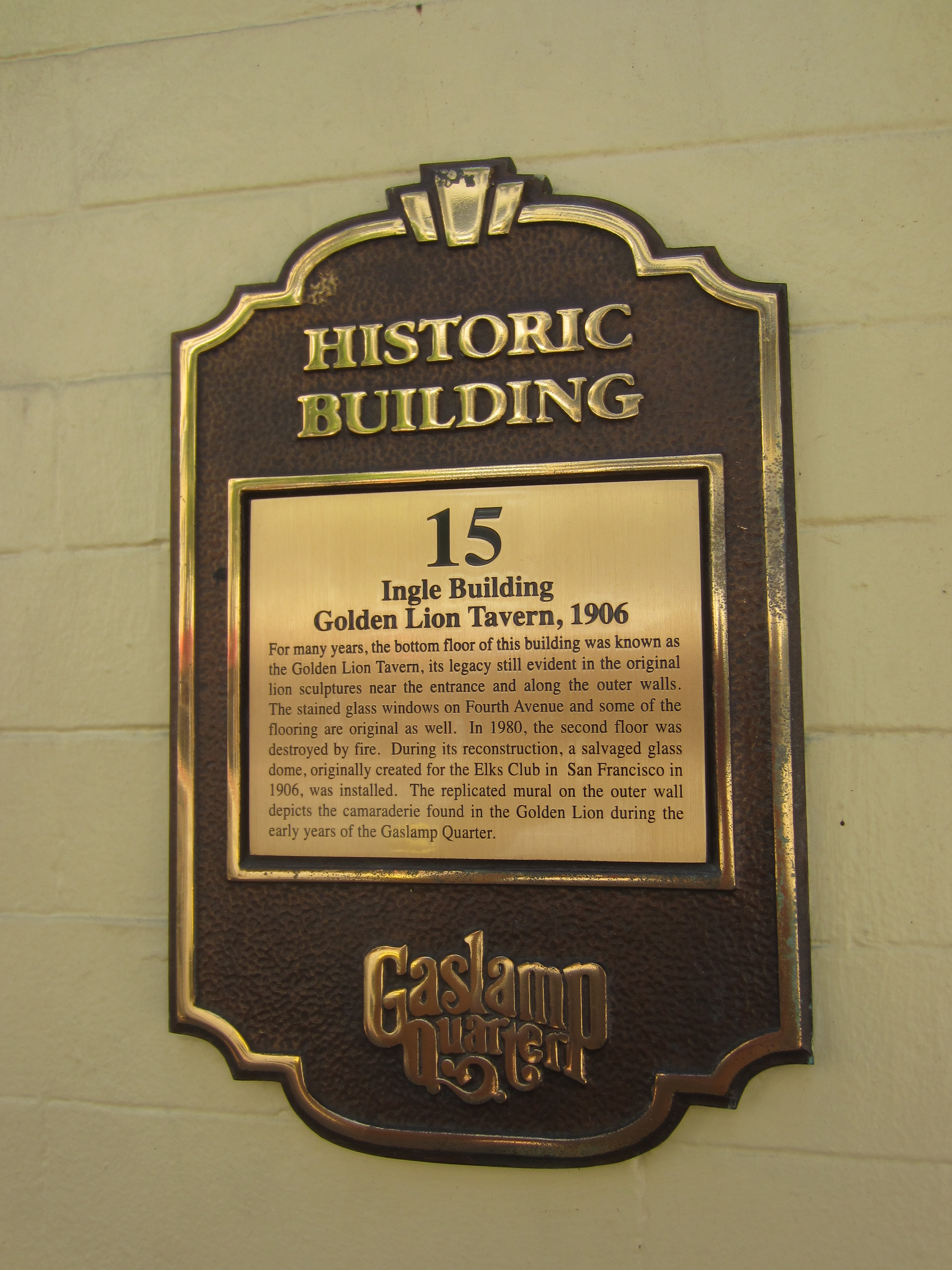 Ingle Building, San Diego, 2016